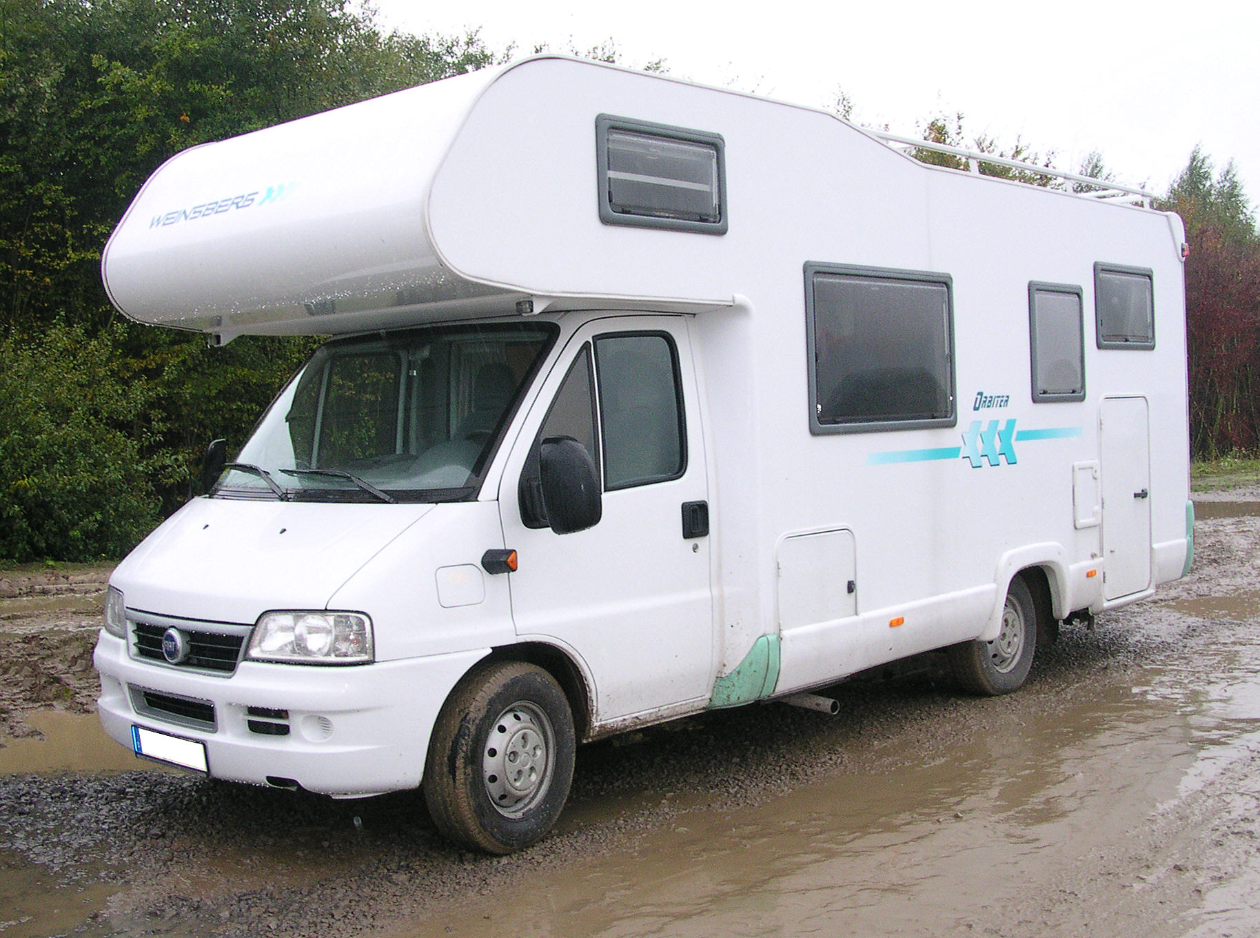 Weinsberg recreational vehicle «Orbiter» using a Fiat Ducato Weinsberg Wohnmobil „Orbiter“ auf Fiat Ducato